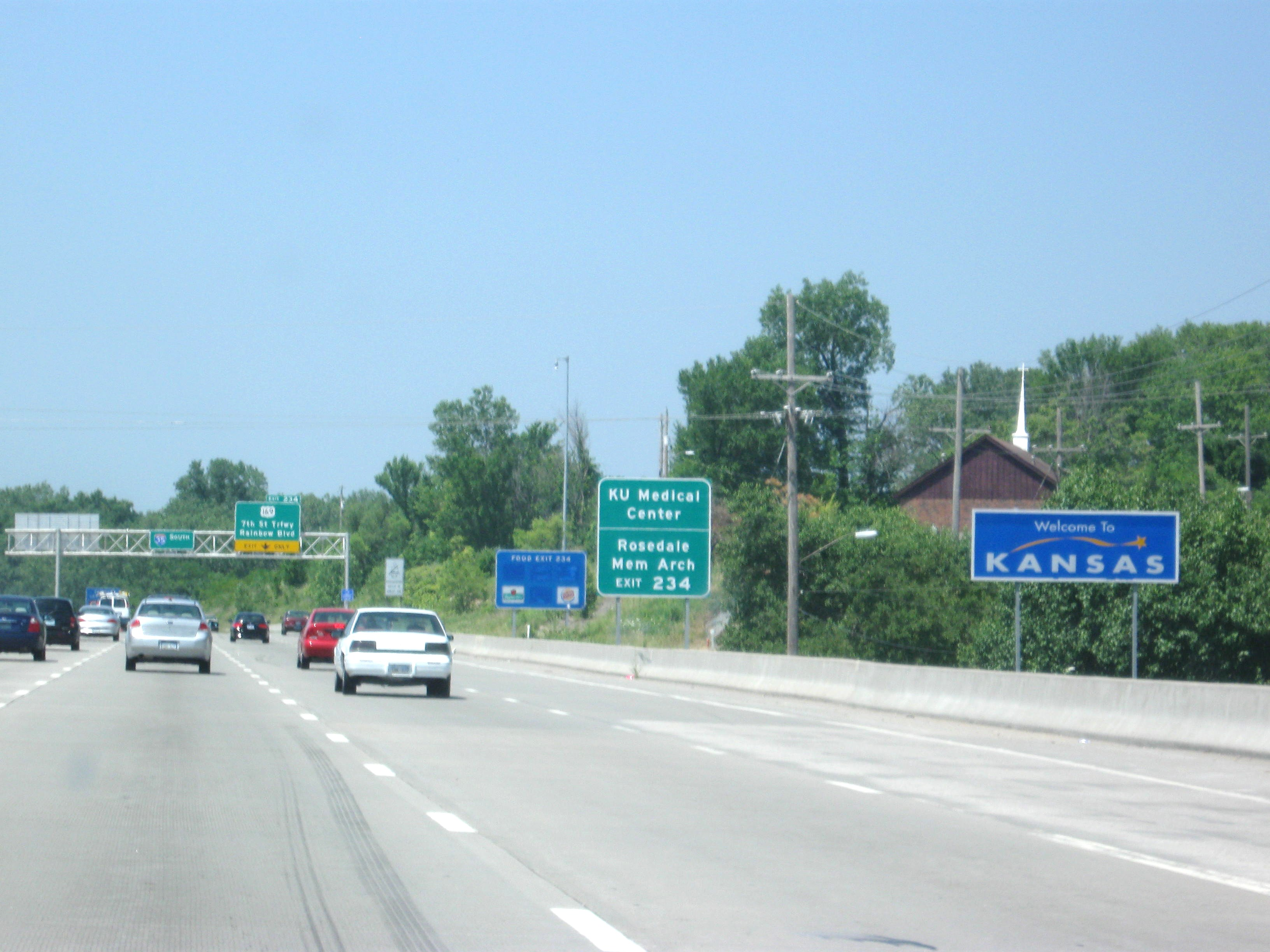 I-35 entering Kansas